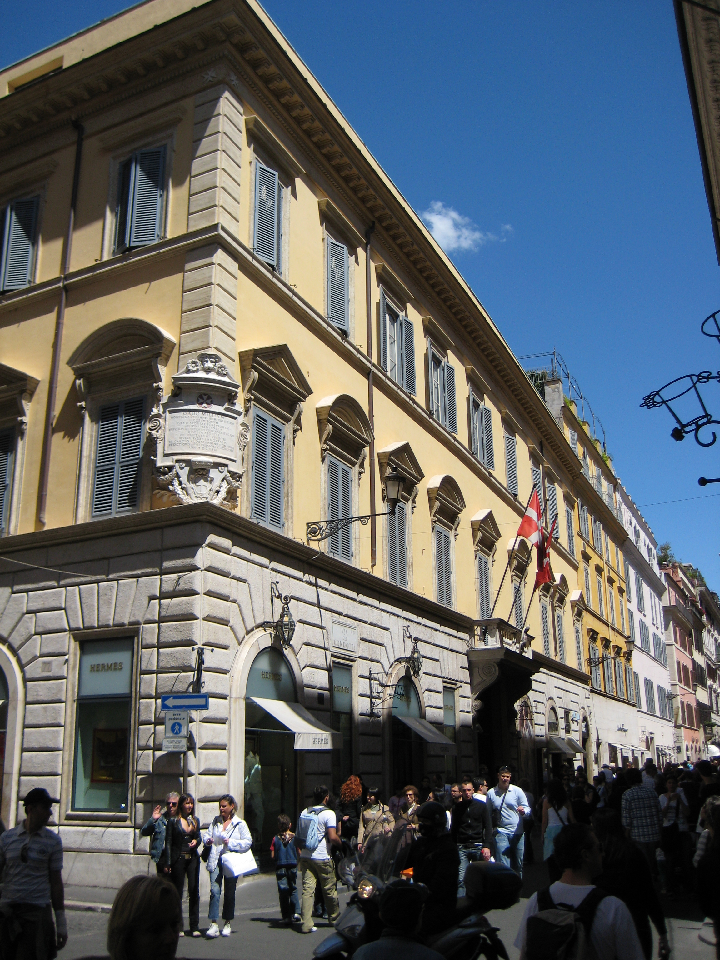 Palazzo Magistrale, Via dei Condotti 68 Rome, headquarter of the Sovereign Military Order of Malta.